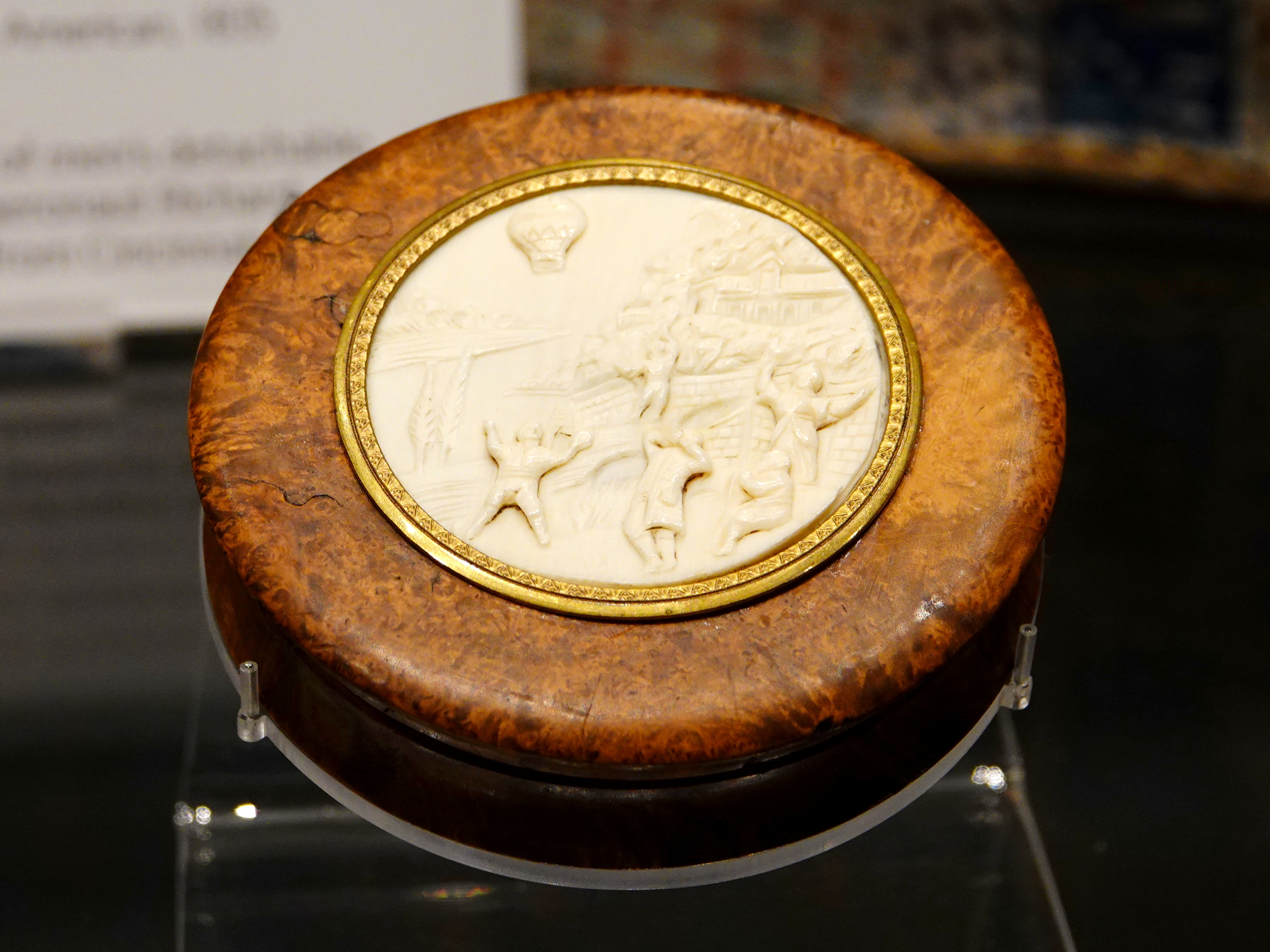 Picture of a French 18th century snuff box made of wood, ivory, tortoiseshell, copper alloy and adhesive. The scene may depict the launch of the first small hot air balloon from Annonay France on June 4th, 1783. Picture taken at the National Air & Space Museum, Steven F. Udvar-Hazy Center, Virginia USA.